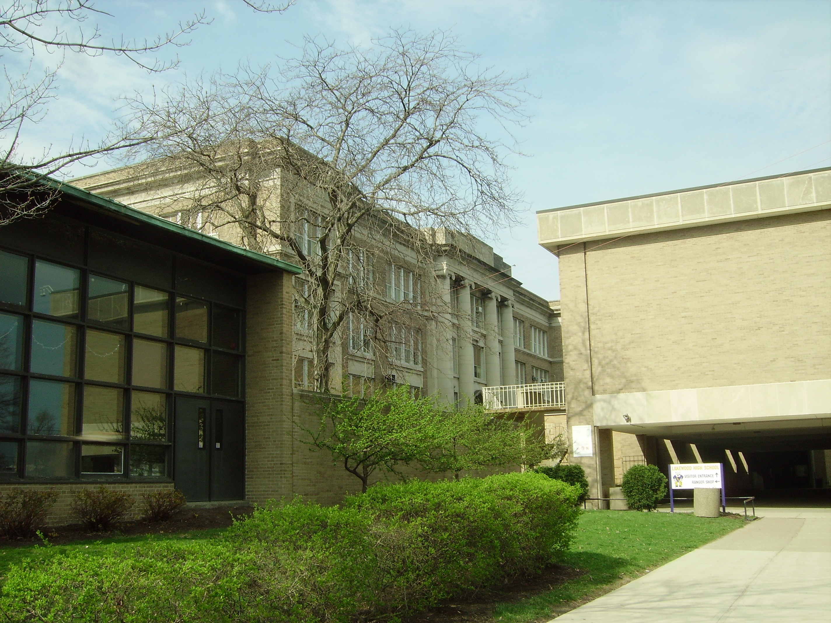 The Lakewood High School old building, now almost entirely surrounded by newer construction. Square windows to the left are the "L" room, to the right is a gymnasium.